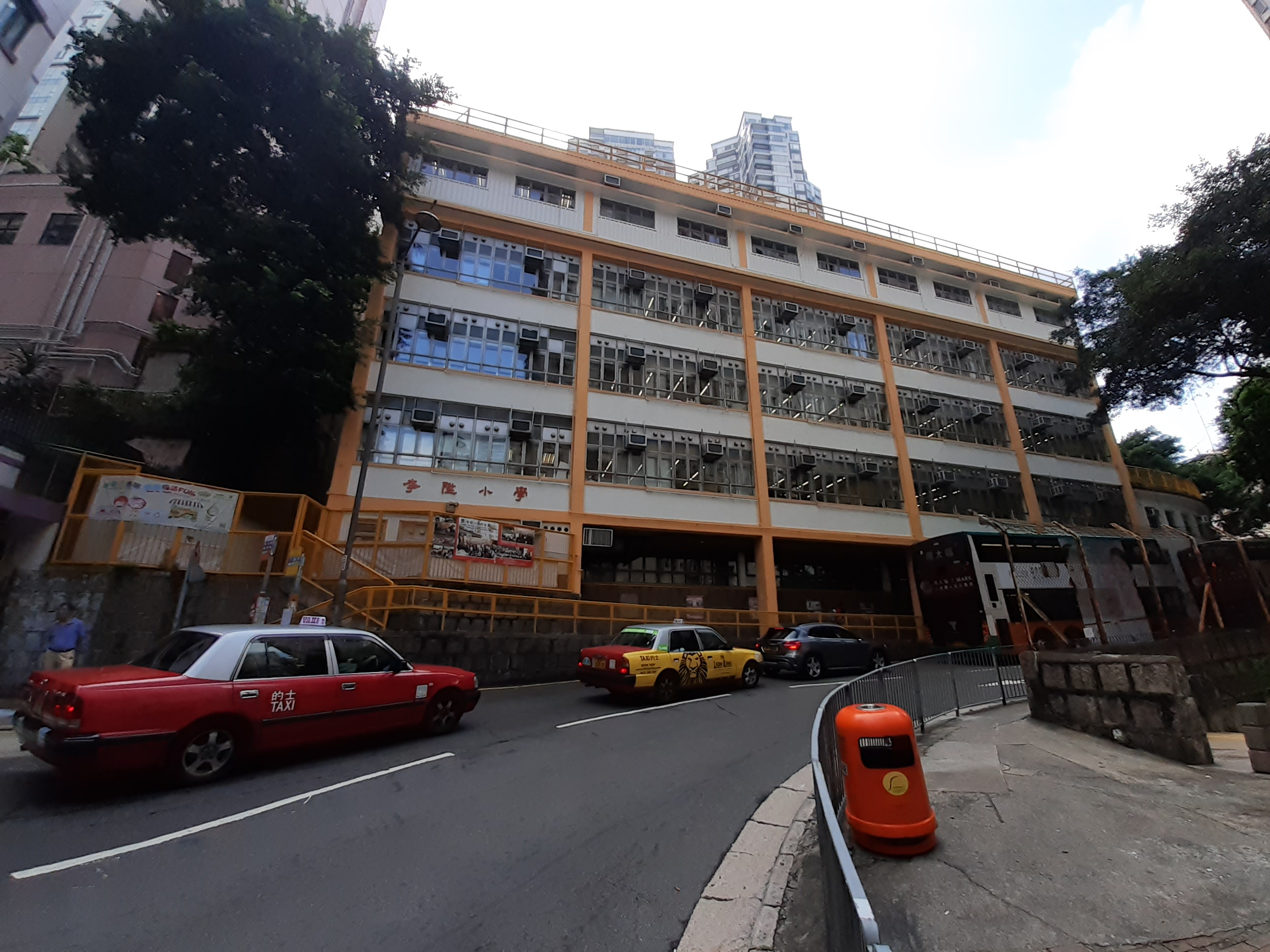 HK 西營盤 Sai Ying Pun 第三街 Third Street Li Sing Primary School in October 2019